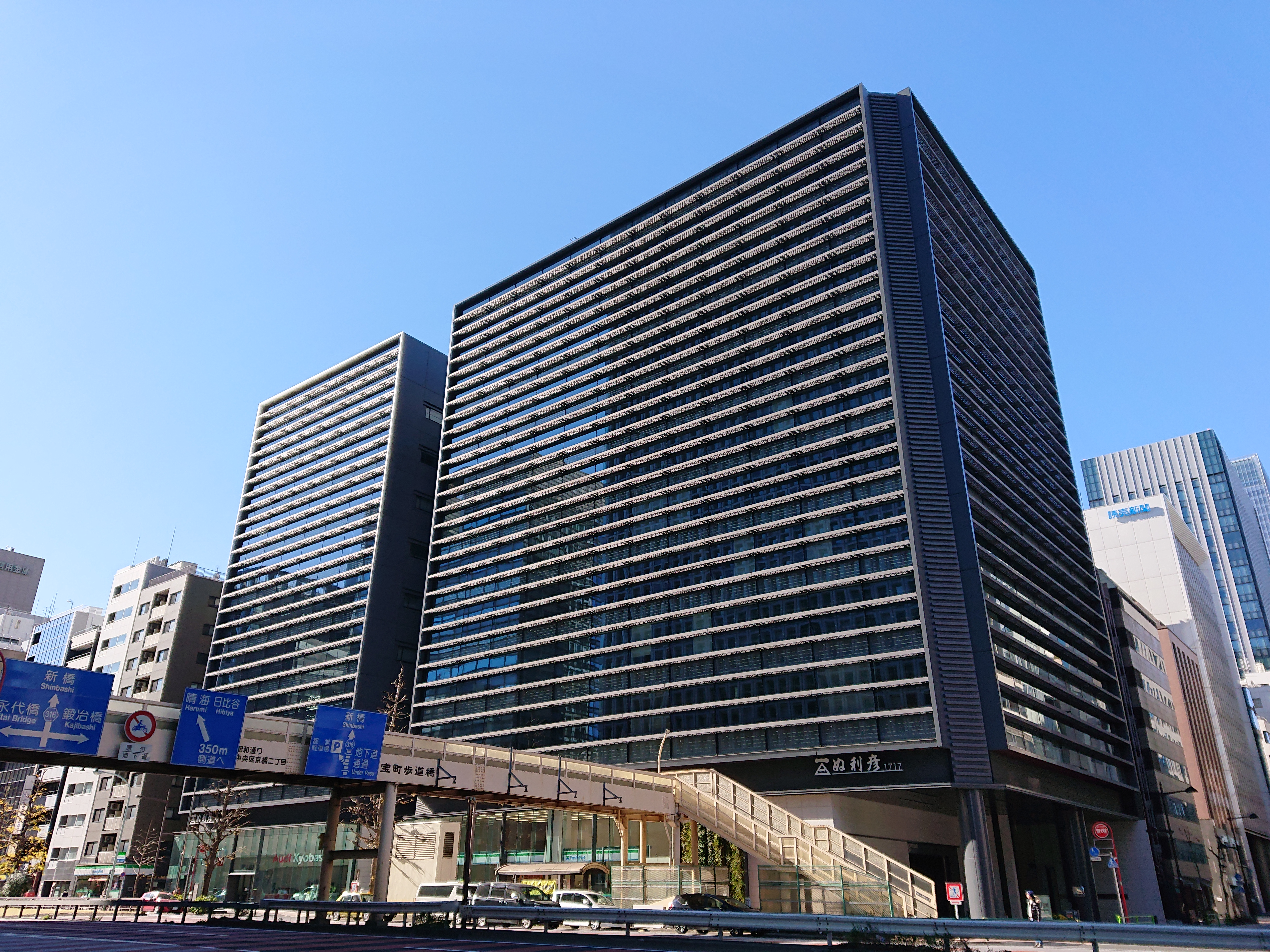 Hitachi Transport System Building (日立物流ビル) and Nurihiko Buildhing South Hall (ぬ利彦ビル南館)